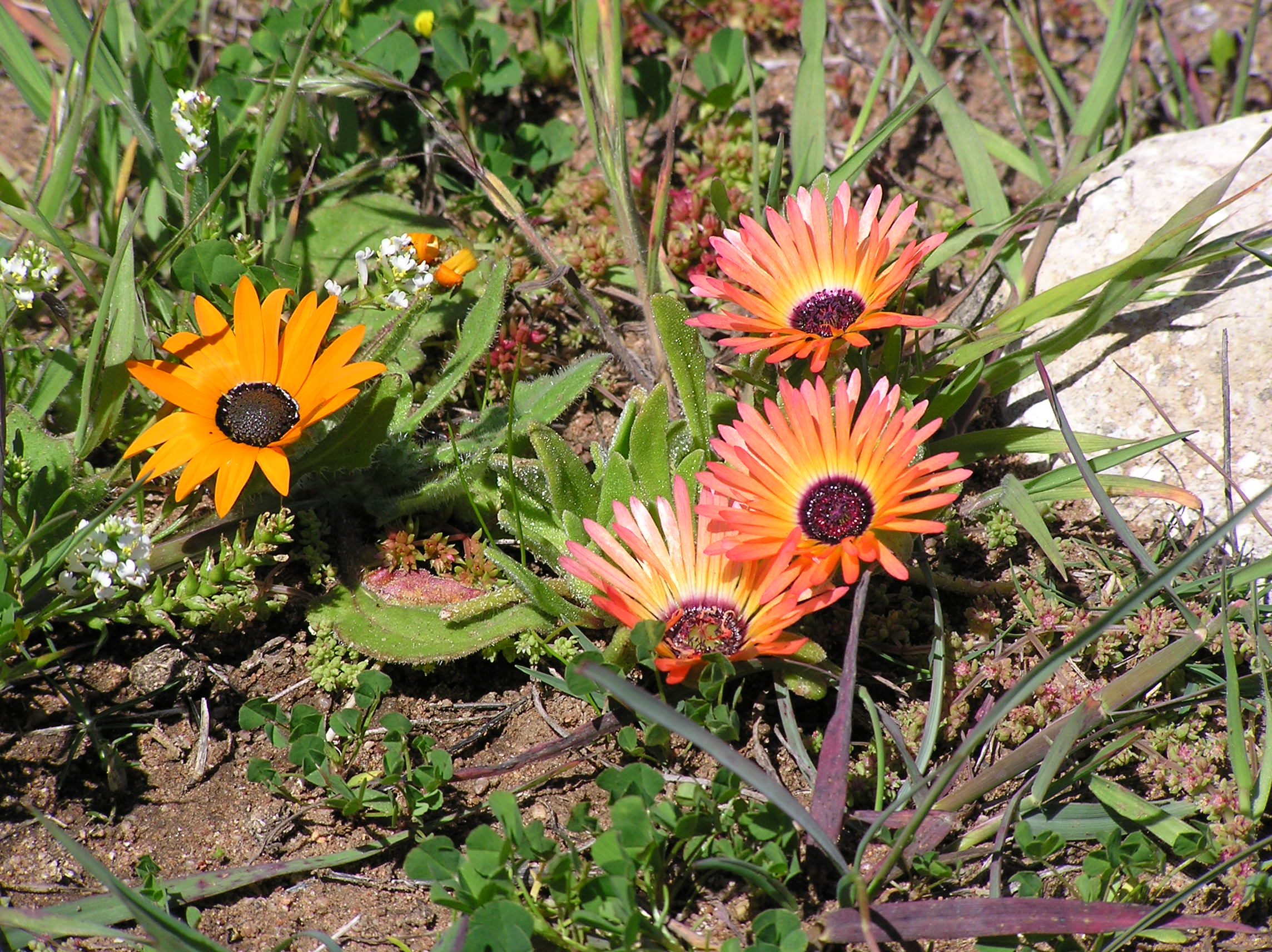 Wildflowers in Spring, West Coast National park, Western Cape, South Africa